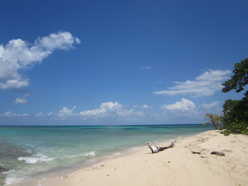 Turtle Beach, Buck Island, Saint Croix, USVI